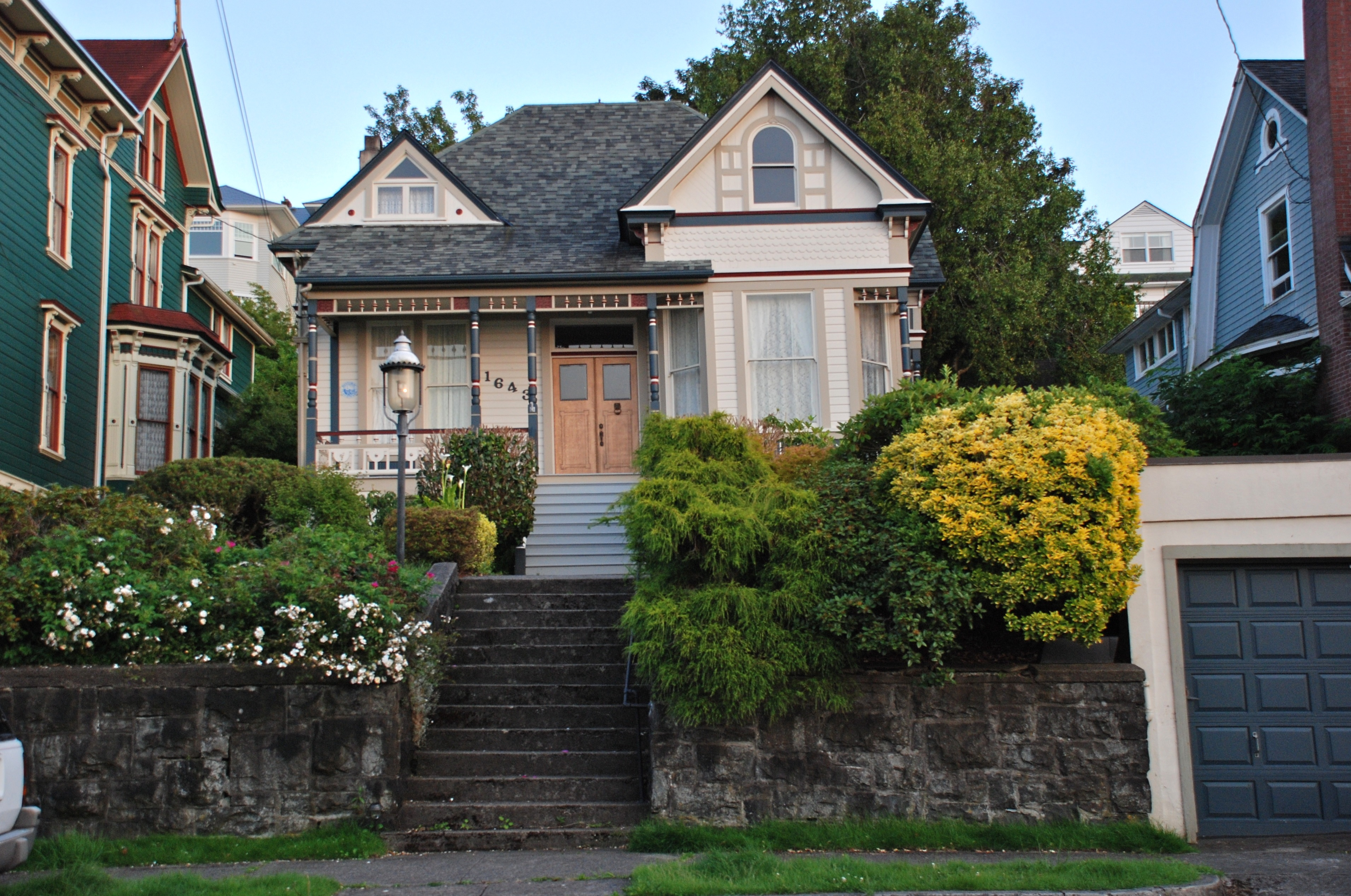 The John N. Griffin House (built in 1892), at 1643 Grand Avenue in Astoria, Oregon, is listed on the U.S. National Register of Historic Places. The houses to its left and right are also listed on the NRHP; they are (left) the Albert W. Ferguson House and (right) the Noonan–Norblad House.